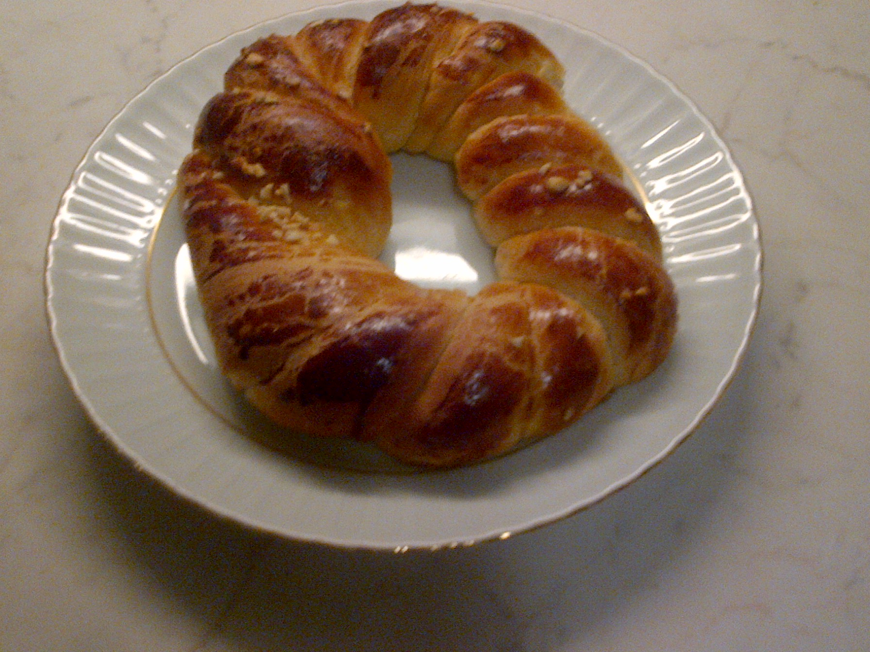 A "paskalya çöreği" from Turkey, with a non-conventional circular form.